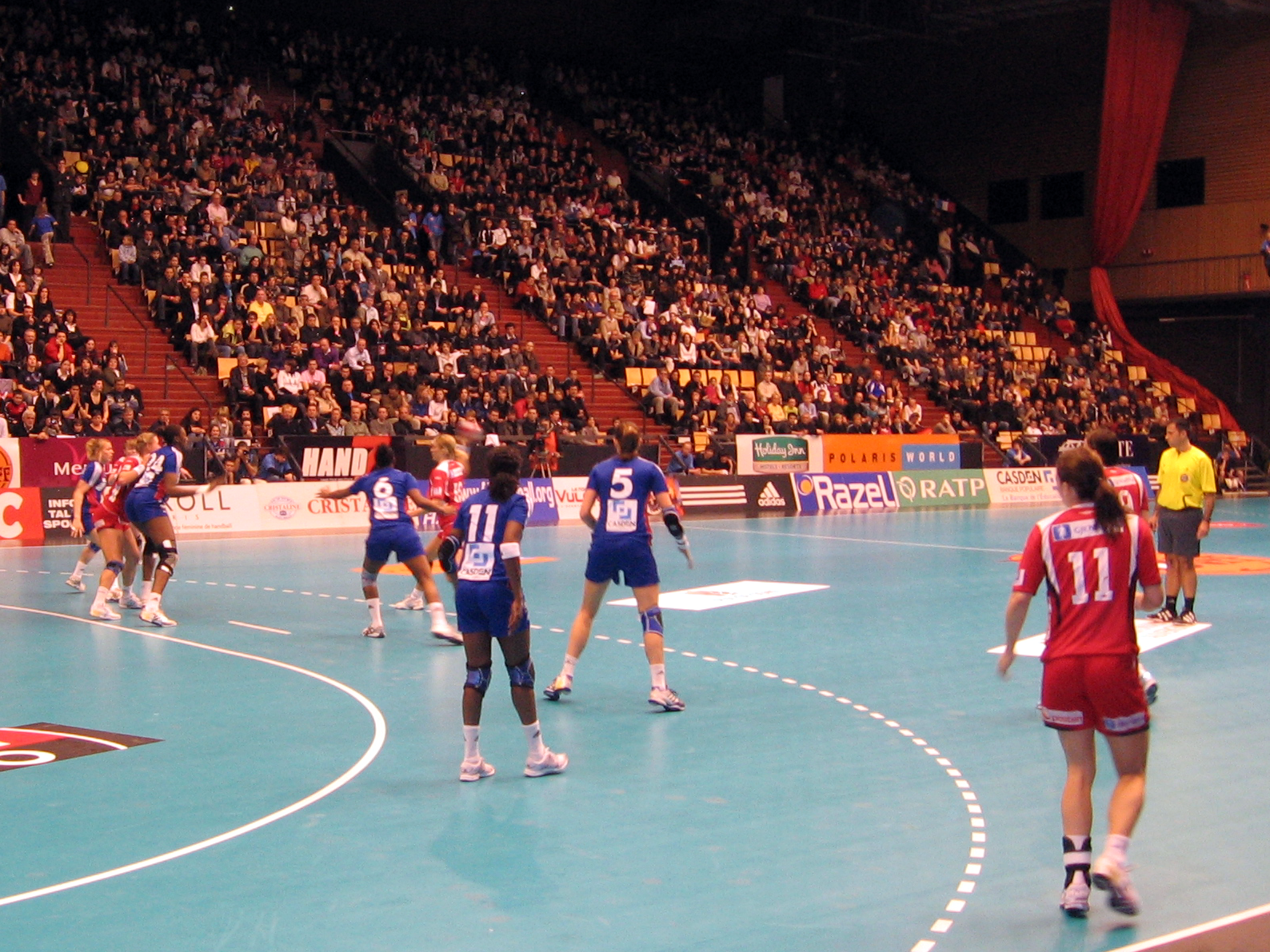 Scene from a friendly handball match played between the national teams of France (in blue) and Norway (in red) at Clermont-Ferrand, France, on 5 March 2009. The image shows the French team on defensive formation against the Norwegian offensive play.